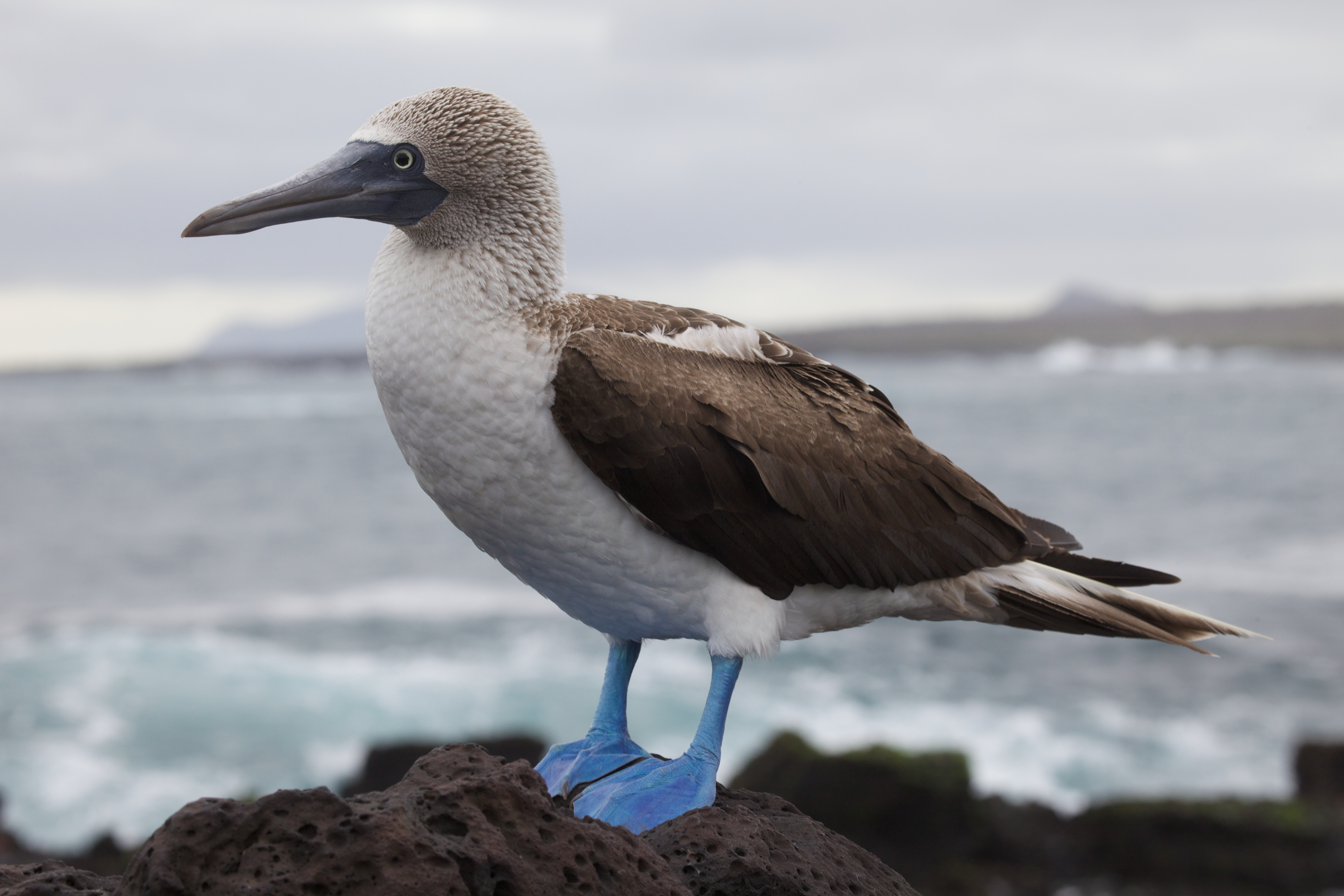 A Blue-footed Booby on Santa Cruz, Galapagos Islands, Ecuador.